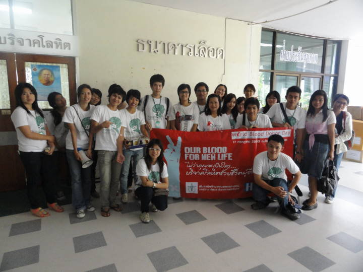 Our Blood for New Life